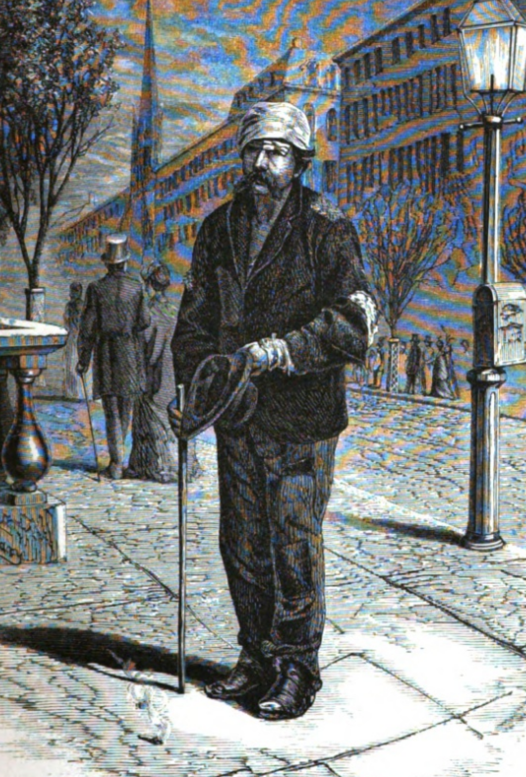 Portrait of Arthur Pember, disguised as a beggar, from his "The mysteries and miseries of the great metropolis" (1875))